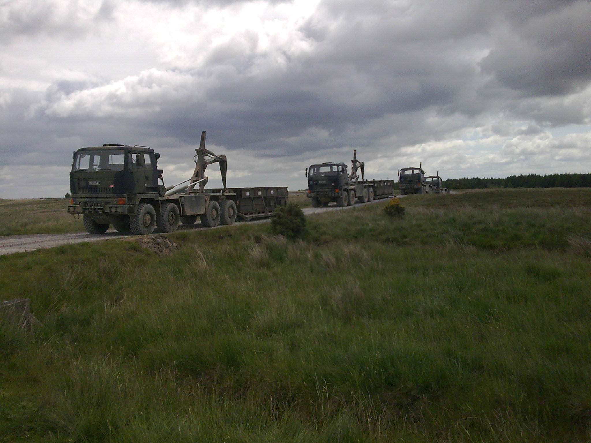 British military trucks.